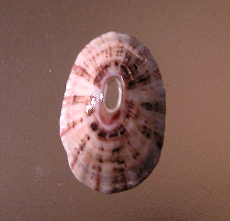 Fissurella rubropicta, Pilsbry, 1890; a keyhole limpet from the family Fissurellidae; Baja California, Mexico